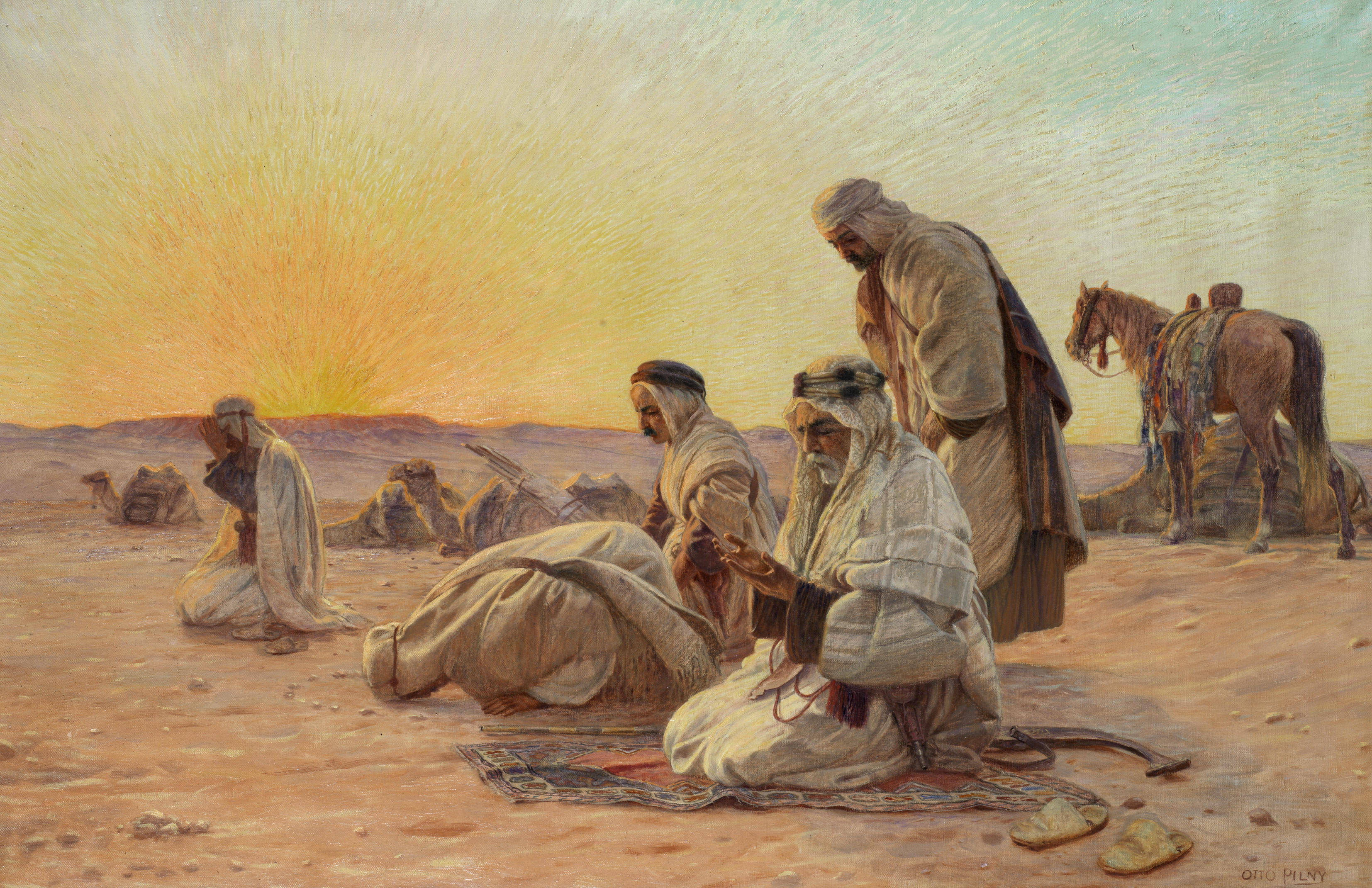 Morning Prayers. signed 'OTTO PILNY' (lower right). oil on canvas. 80 x 120 cm